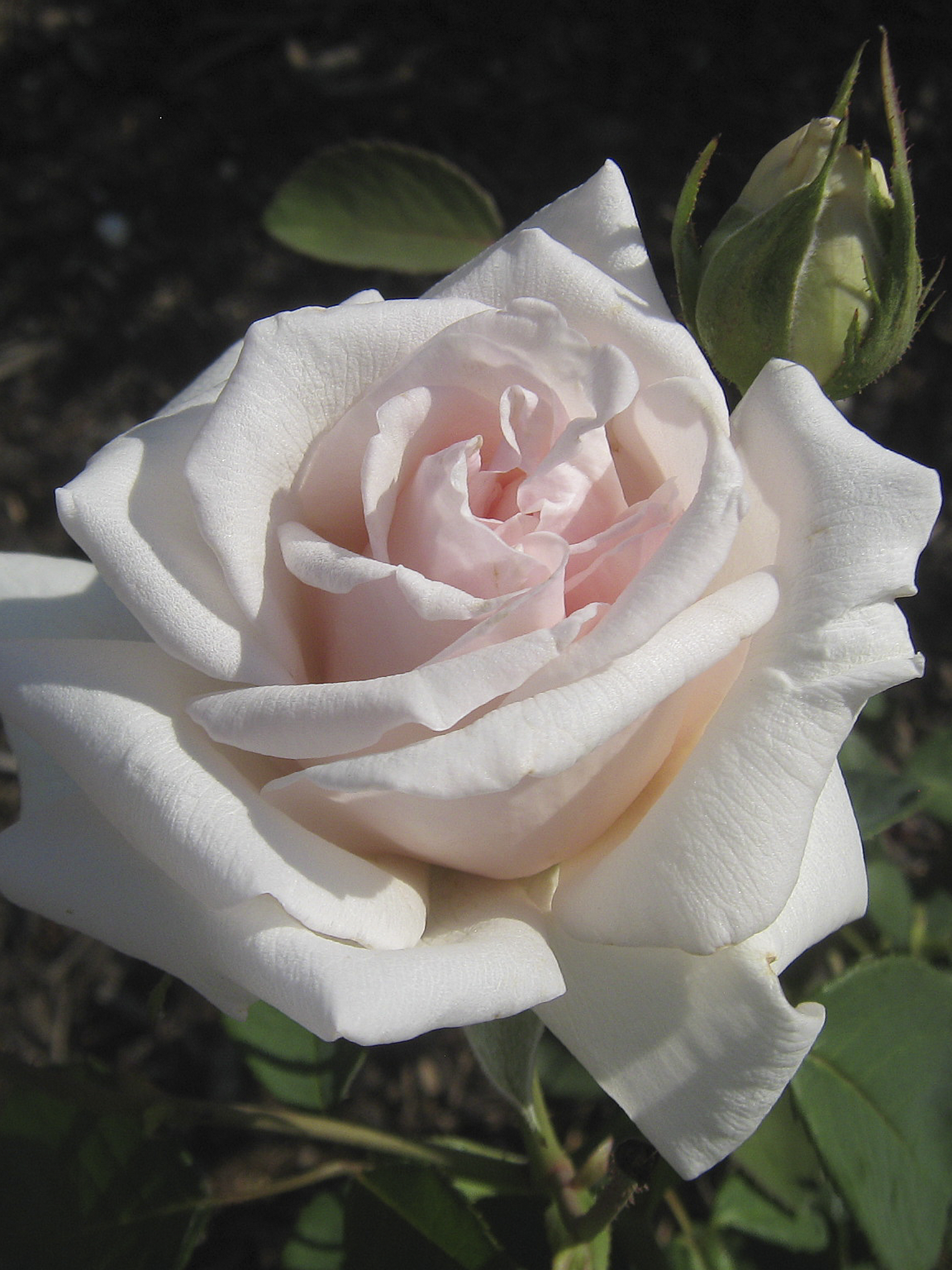 Rose 'Lady Edgeworth David' hybrid tea by Olive Fitzhardinge 1939 named after her friend and neighbour in Warrawee, New South Wales; photographed in the Nieuwesteeg Heritage Rose Garden, Maddingley Park, Bacchus Marsh, Victoria